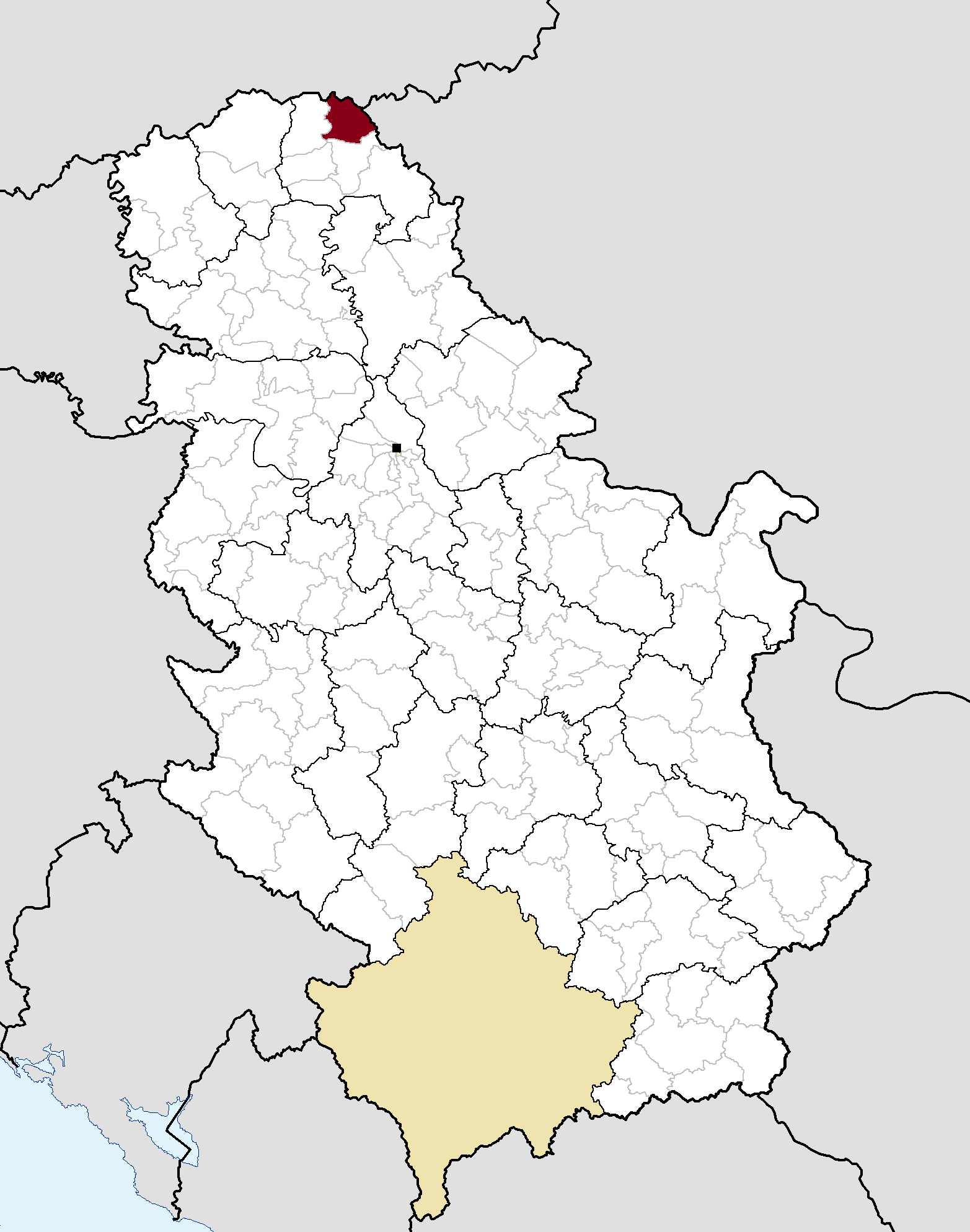 Municipal location in Serbia